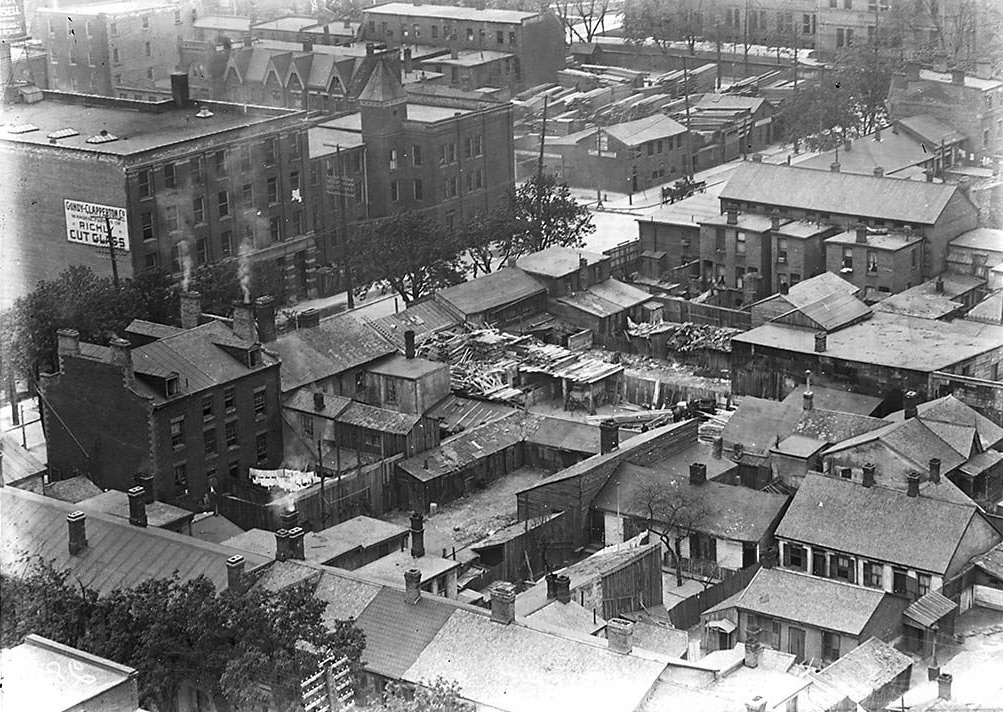 The Ward as seen from the roof of one of the T. Eaton Co. Ltd. factories, looking southwest with the image centred at the intersection of Elizabeth and Albert street. Osgoode Hall is visible at the top right. Most of the houses and other buildings in this photograph were demolished to allow for the construction of Toronto City Hall and Nathan Phillips Square.